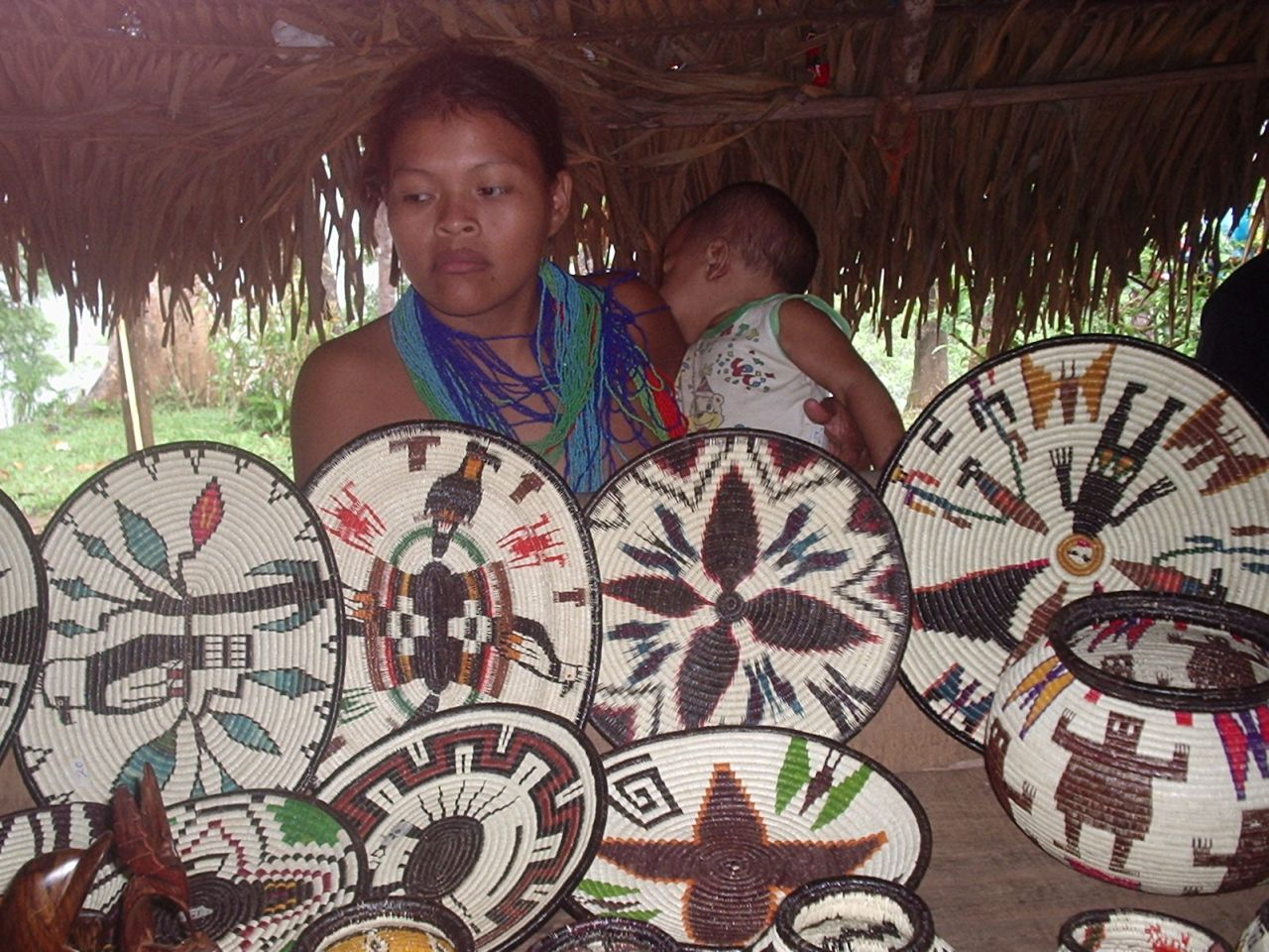 Woven baskets of emberas women, Panama